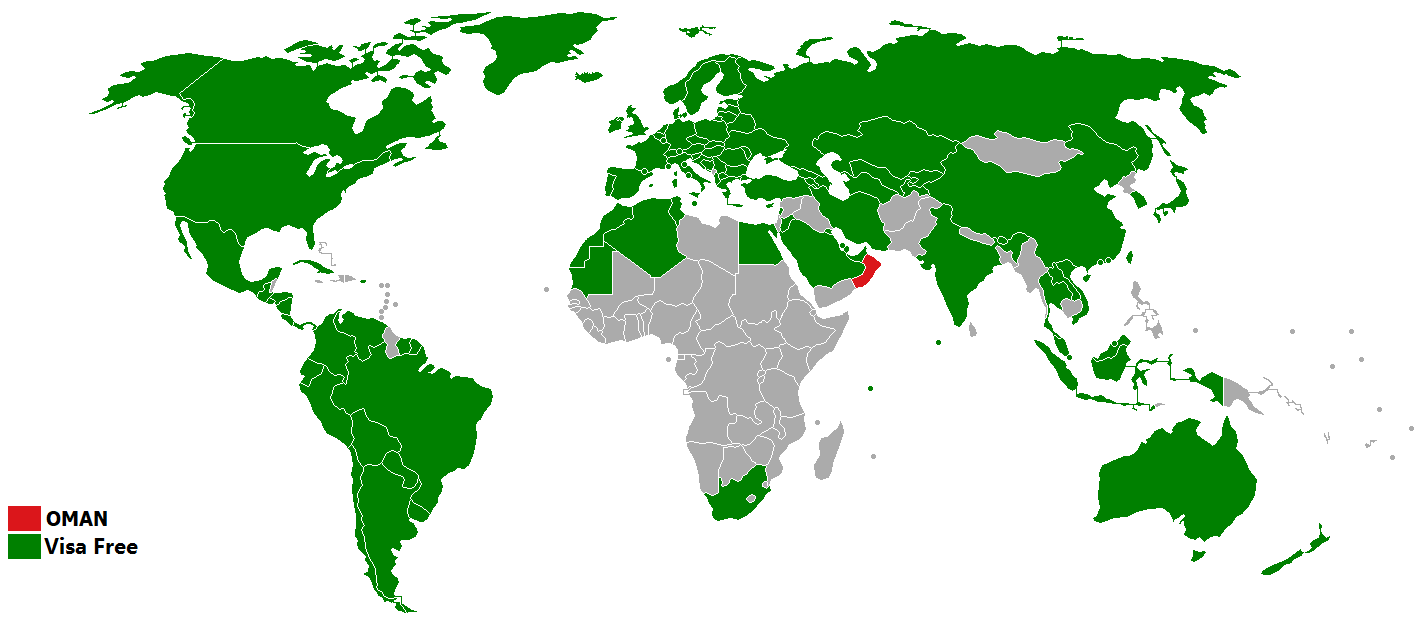 Visa policy of Oman Oman Visa-free eVisa Visa required